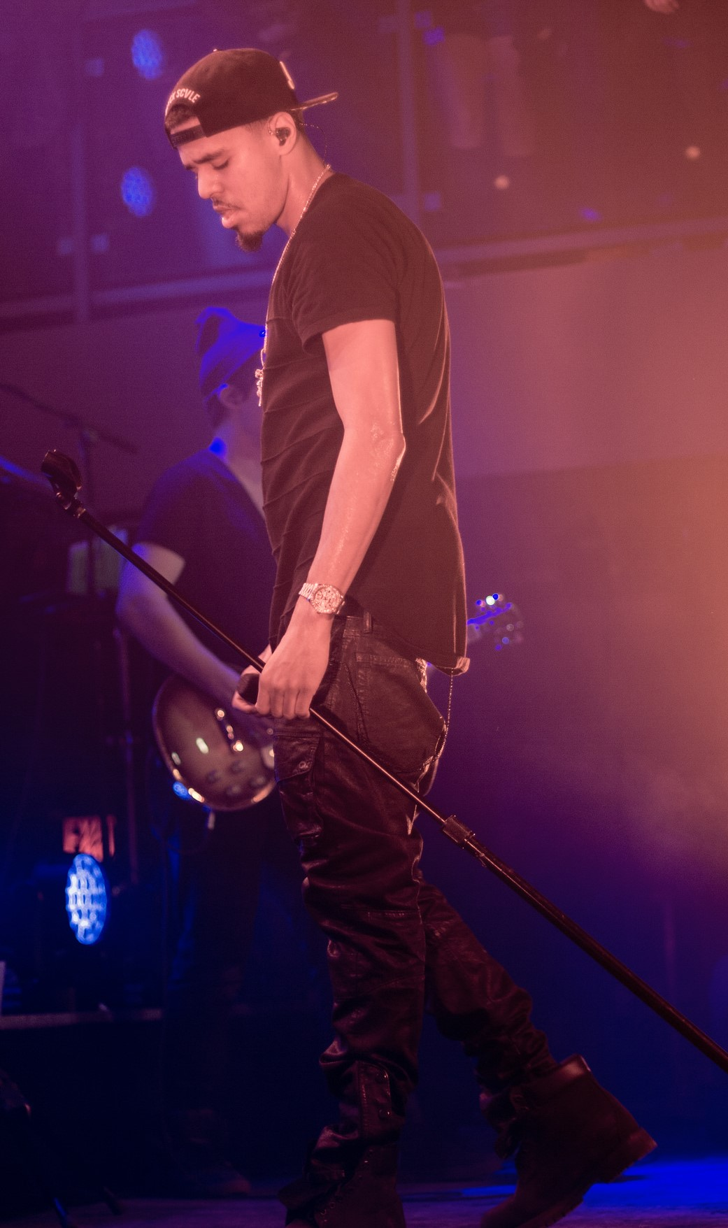 J.Cole What Dreams May Come Tour 2014 at London Music Hall.